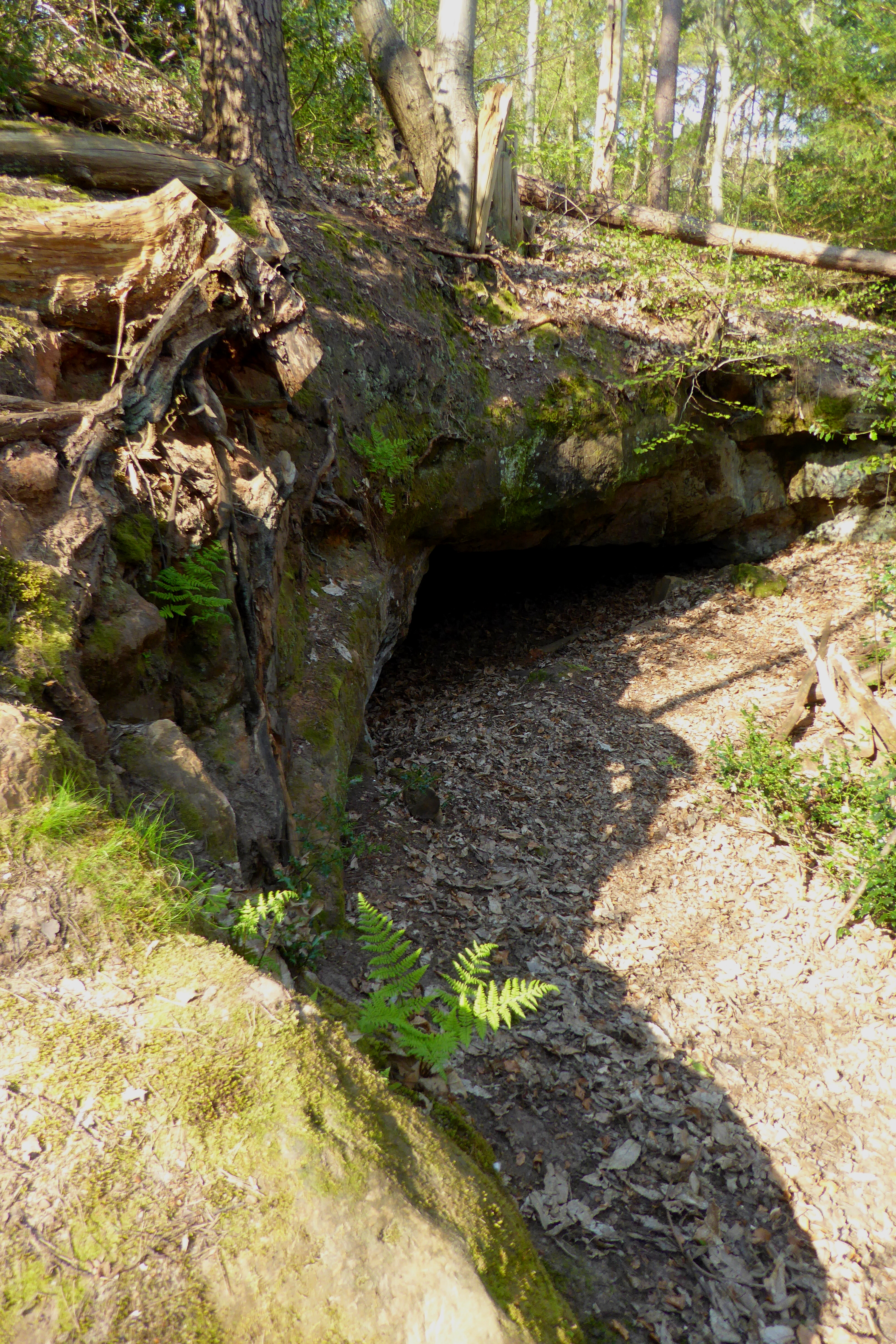 The Southern Rock Shelter on Oldbury Hill, Kent.